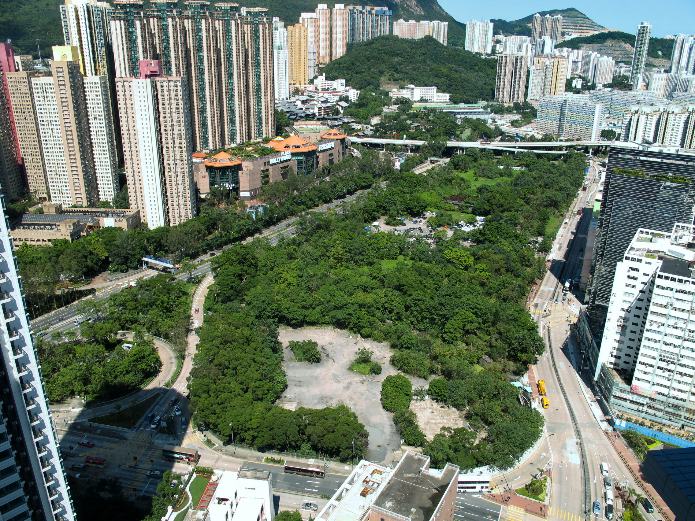 Diamond Hill Tai Hom Village Site 大磡村